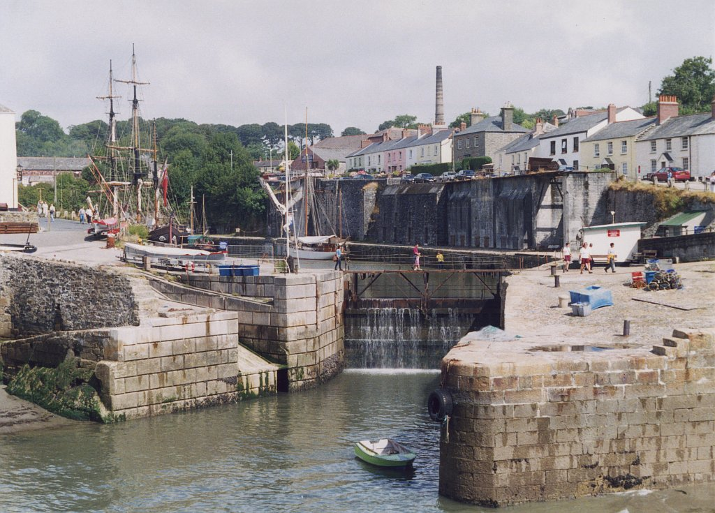 An image of the harbour at Charlestown, St Austell showing the harbour gates of the impounded harbour.